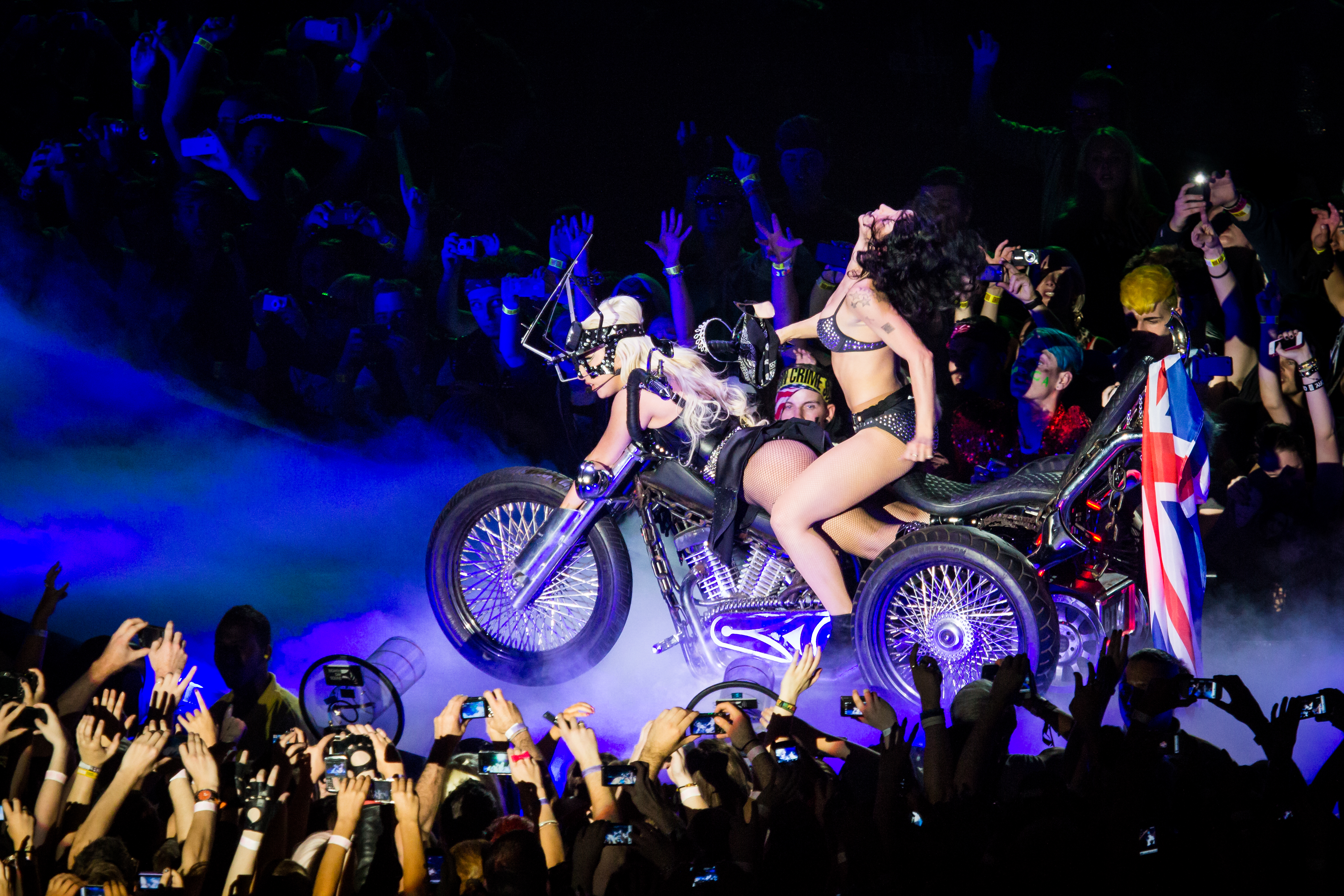 Lady Gaga performing "Heavy Metal Lover" on The Born This Way Ball Tour in Manchester, UK.